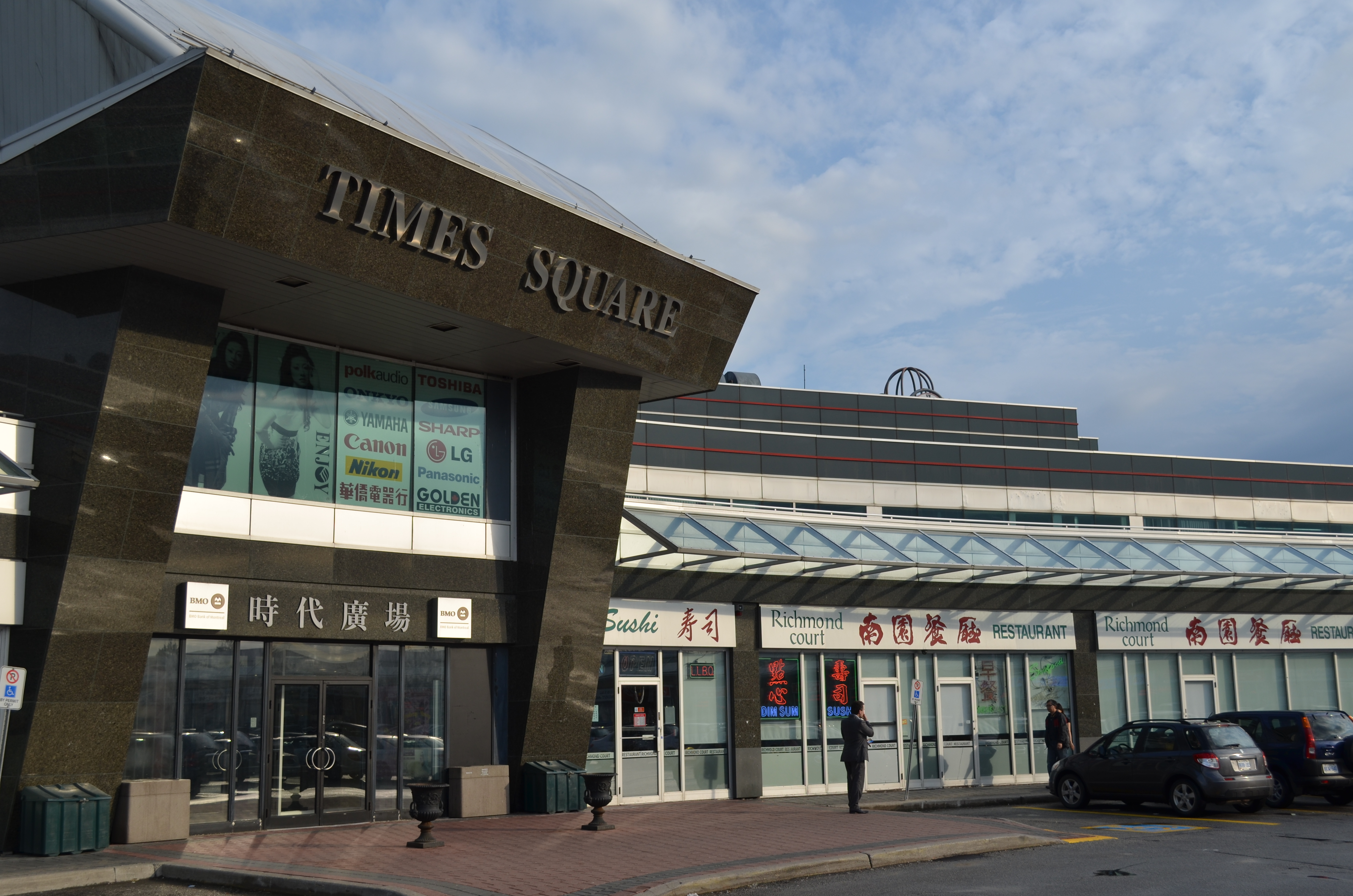 Times Square, Richmond Hill, Ontario, Canada中文（香港）: 時代廣場 - 列治文山